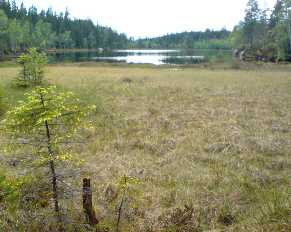 Åsnessetertjern på Lierfoss i Aurskog-Høland kommune.